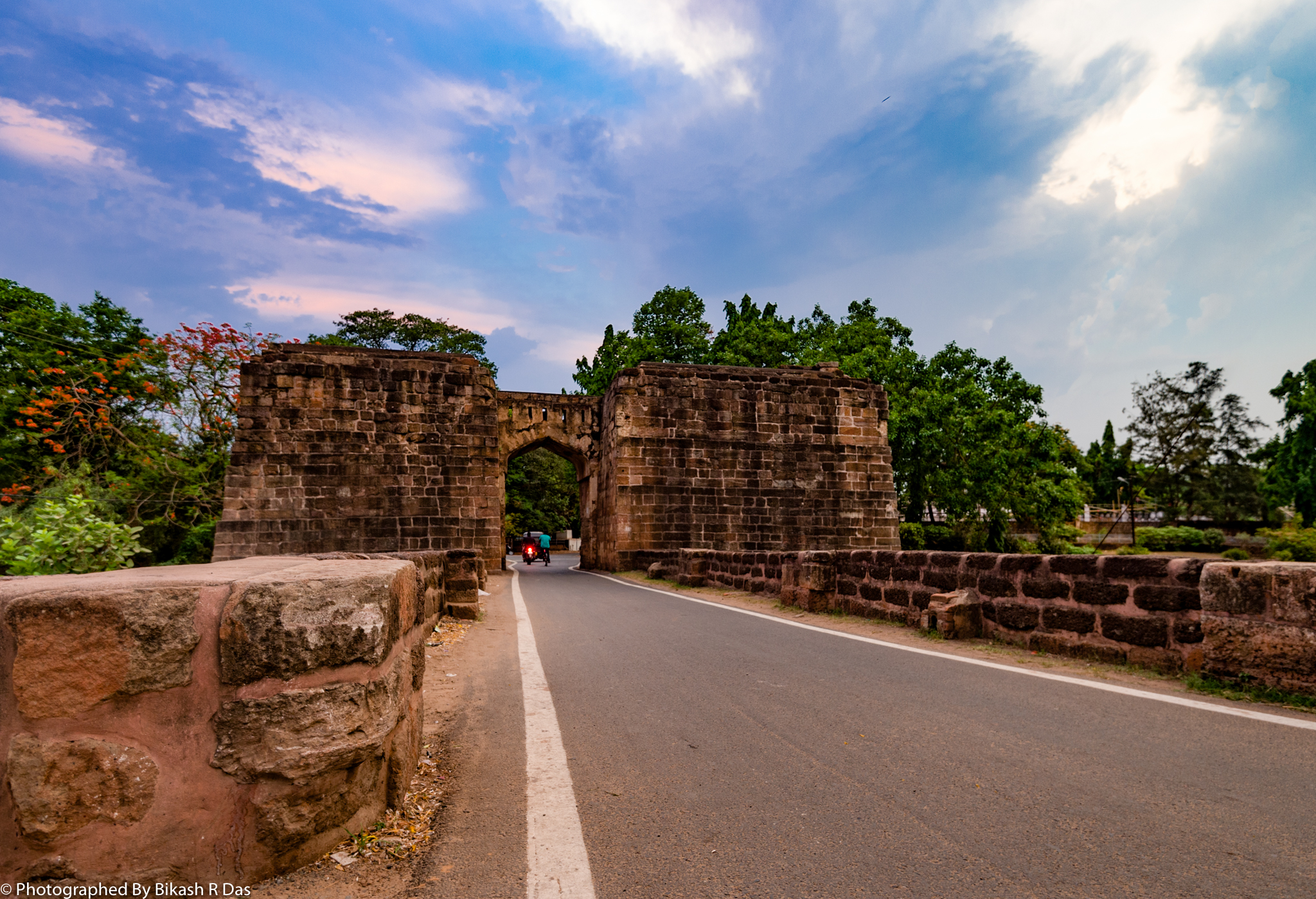 Majestic Main Entrance of the Barabati Fort